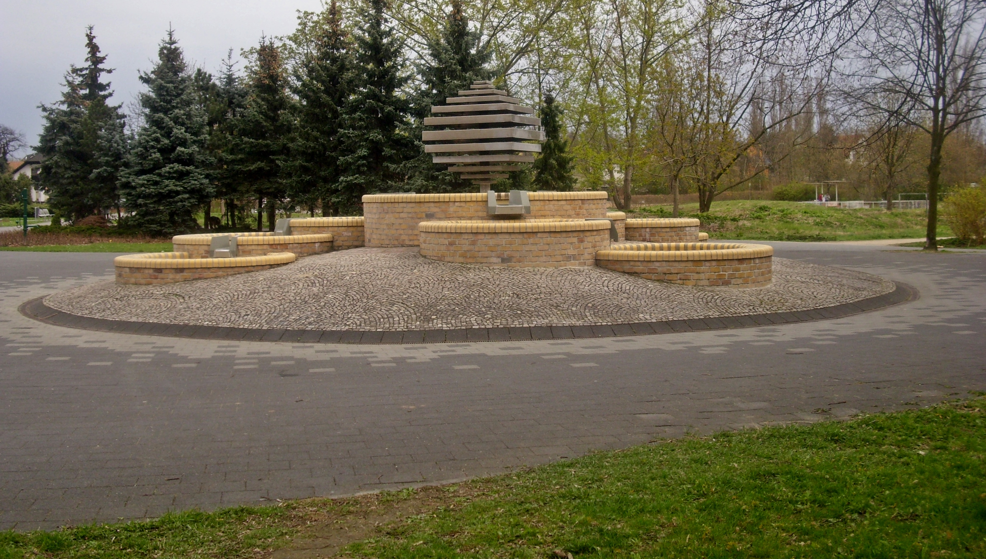 Sitting well with the main fountain